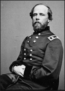 photo of Darius N. Couch (1822-1897)